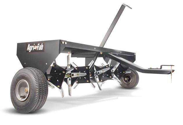 Agri-Fab Core/Plug aerator